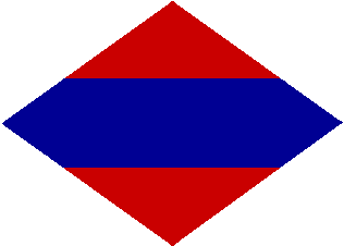 The formation signs used by the Canadian Army in WWII would be covered by a Crown Copyright held by the Canadian Department of National Defence. The copyright expired 50 years after the formation sign was created (no later than 1944). The image in the file was created entirely by me based on other lower-quality images accessible on the Internet.